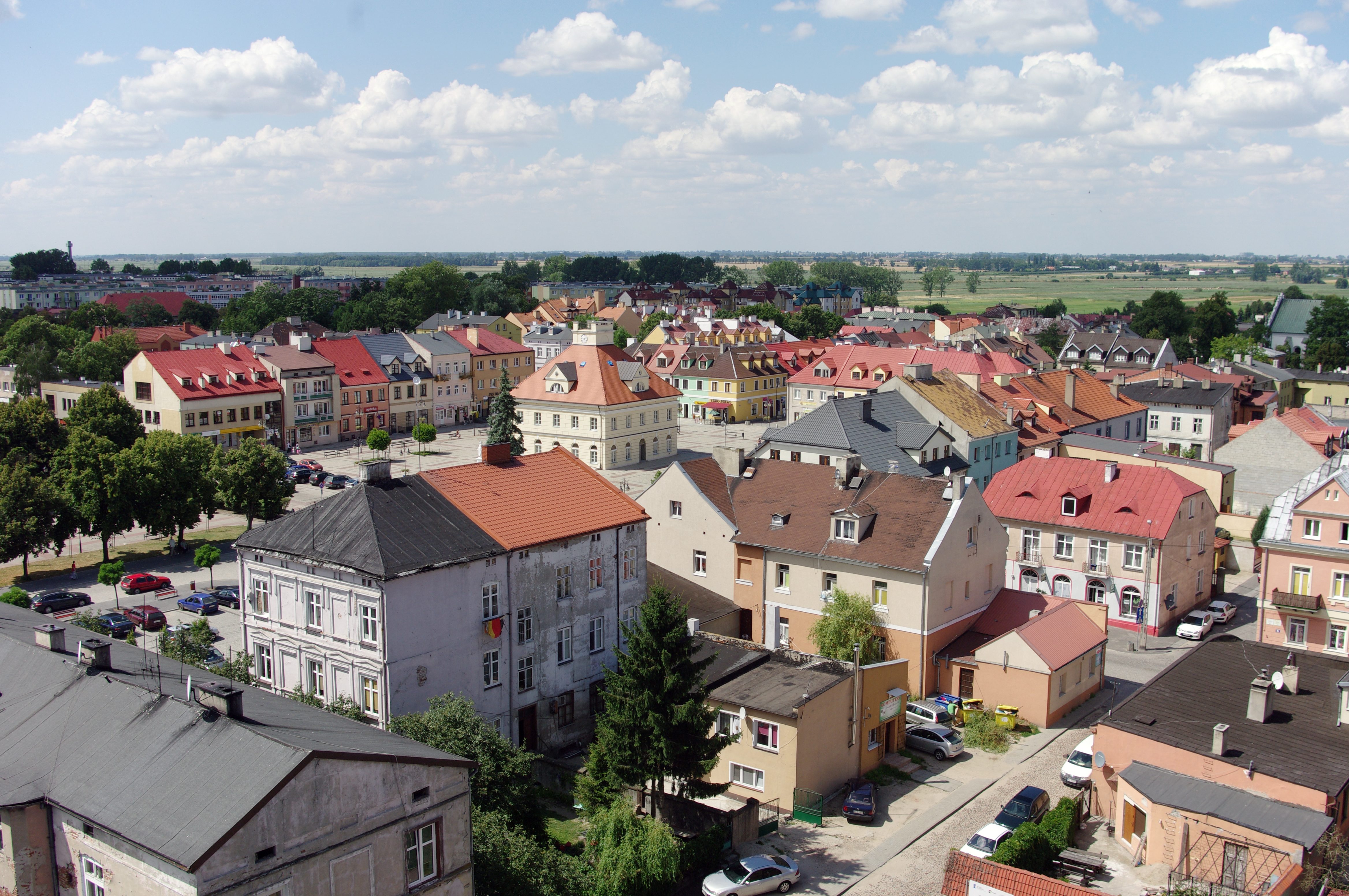 Łęczyca - a view from the castle tower